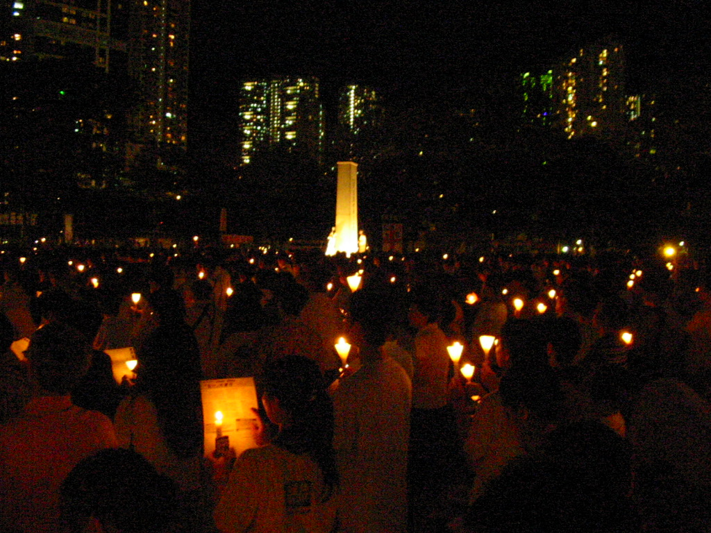 Candlelight Vigil for June 4 Massacre. 2007